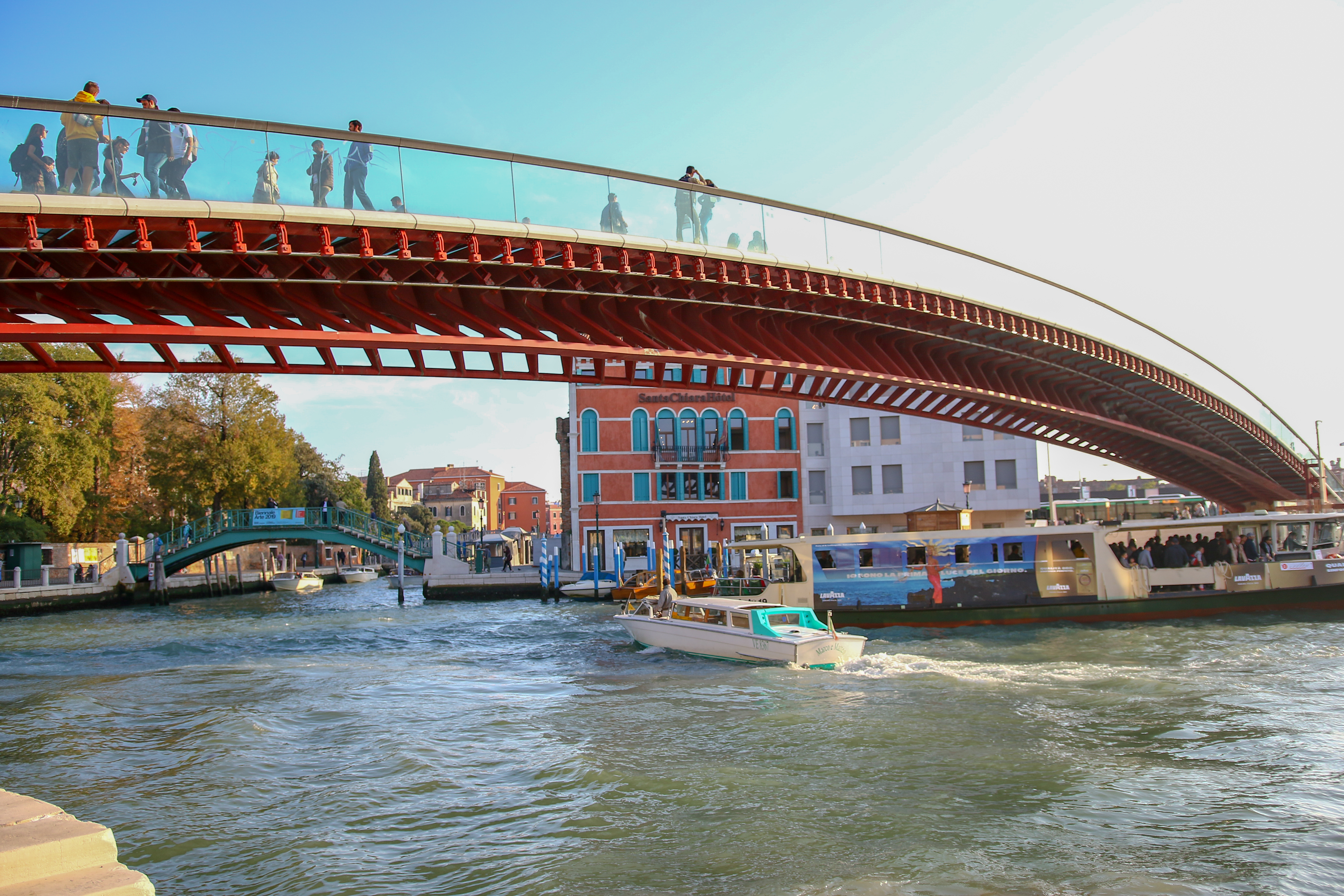 Constitution Bridge, Venice, Province of Venice, Region of Veneto, Italy